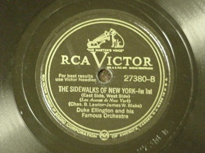 sidealks of new york duke elligton shellack